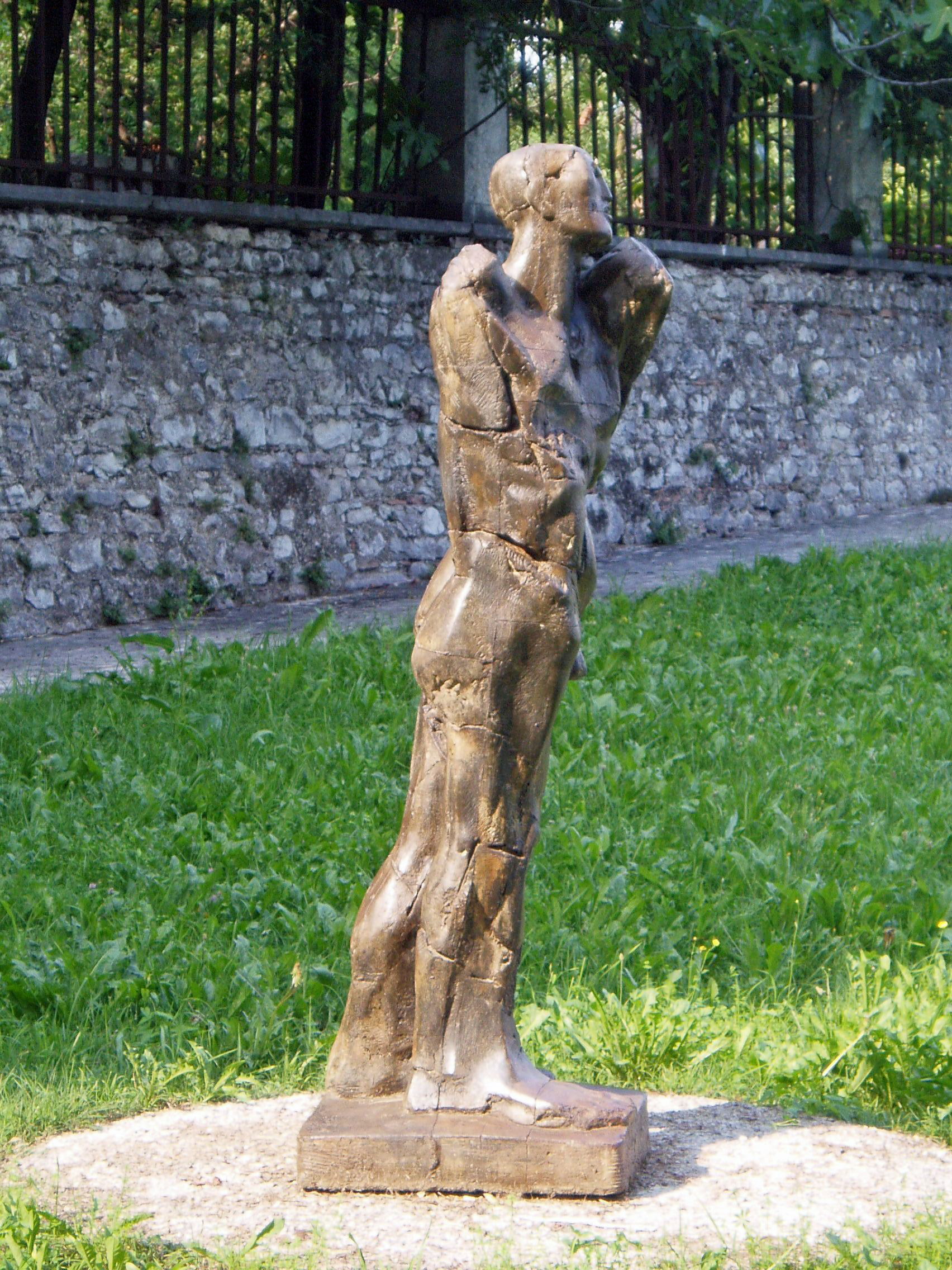 Josef Kostner South Tyrol.